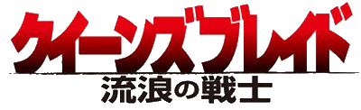 Logo of Queen's Blade: Exiled Warrior anime series.